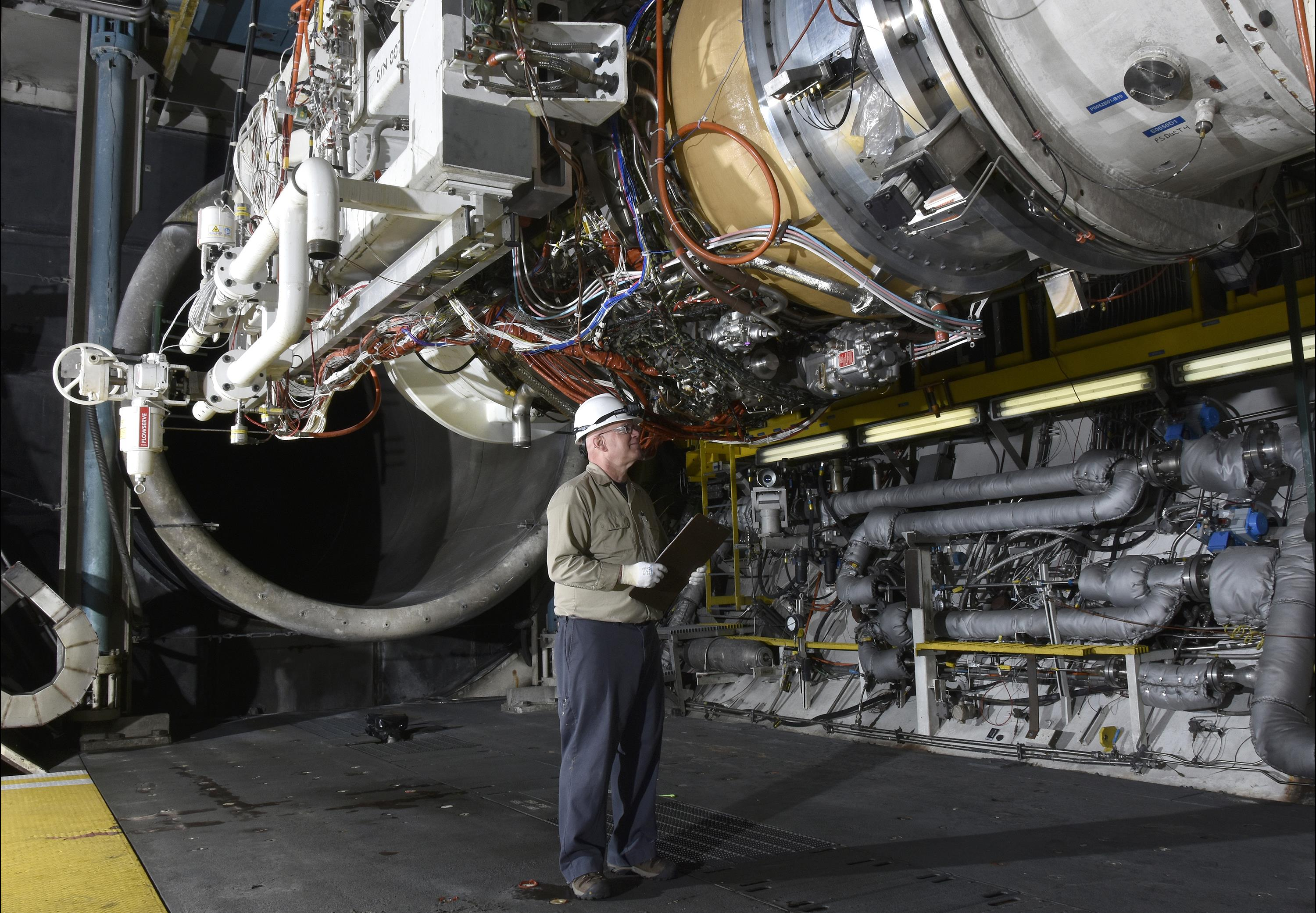 Neil Aukeman, AEDC outside machinist, prepares the General Electric Passport 20 engine, which powers the Bombardier Global 7000 and 8000 business jets, for testing in an engine test cell at AEDC.